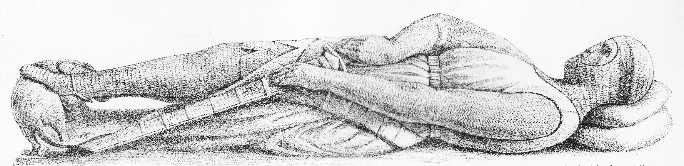 Effigy of Maurice de Gaunt(d.1230) in south aisle of Mayor's Chapel. Comparable in style to effigy of William Marshal in Temple Church, London. Source: Drawn by Mrs Bagnall-Oakeley, published in Barker, W.R. "St Mark's or The Mayor's Chapel, Bristol", Bristol, 1892, plate 16, opp.p.178